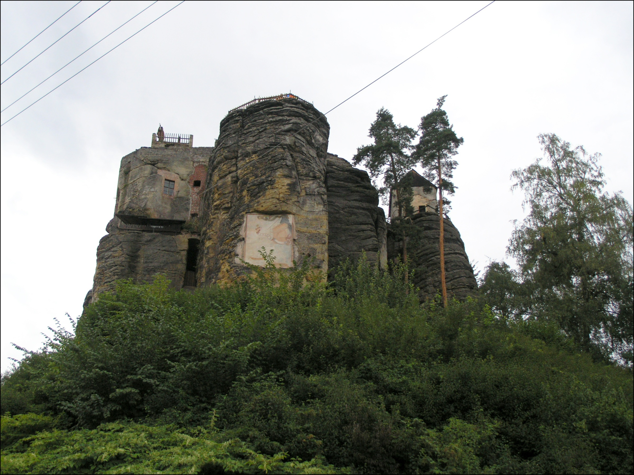 Sloup v Čechách - rock castle